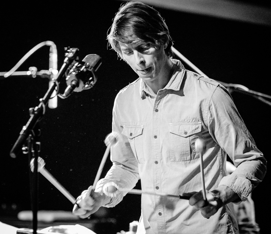 Jim Hart performs with Marius Neset Quintet and Stian Carstensen at the stage of EnergiMølla. The concert took place on 08. July 2017 in Kongsberg. Lineup:Marius Neset (saxophone)Ivo Neame (piano)Jim Hart (vibraphone)Petter Eldh (bass guitar)Anton Eger (drums)Stian Carstensen (accordion)